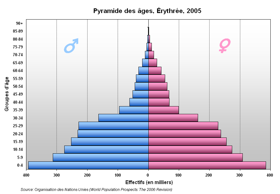 Eritrea Population pyramid, 2005